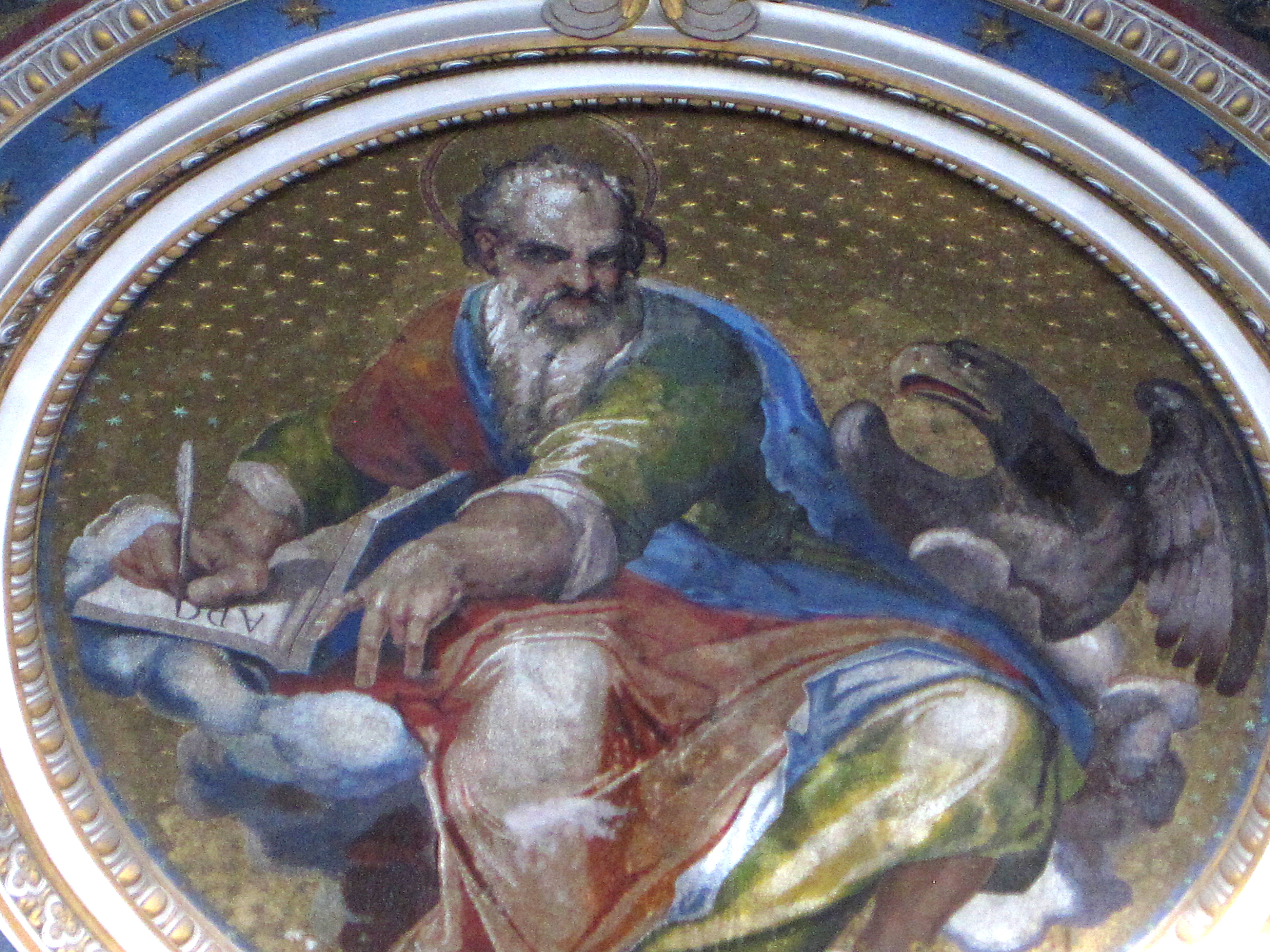 Fresco of St. John the Evangelist adorning the dome of the St. Peter's Basilica in Vatican City.